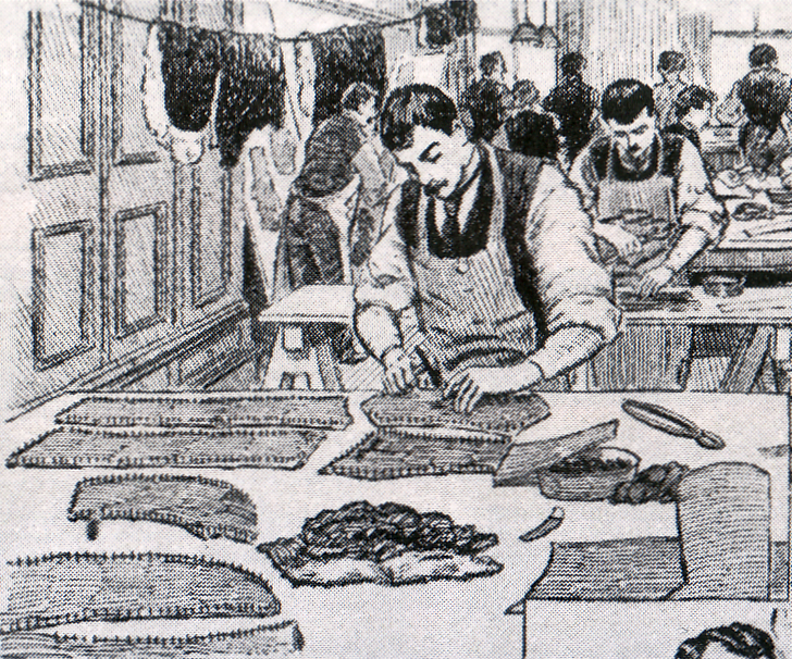 Preparing and cutting department.